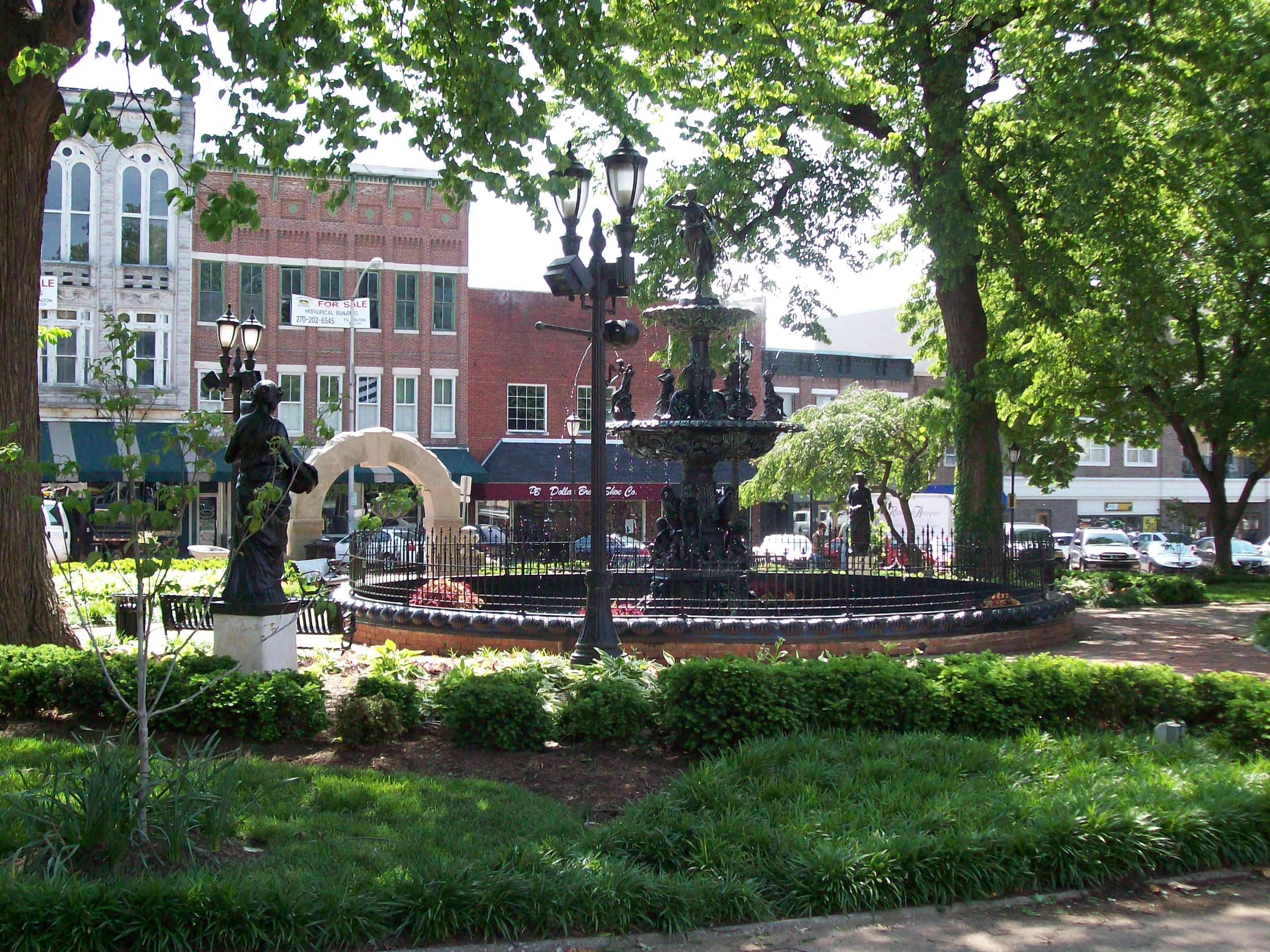 Fountain Square Park in the center of Downtown Bowling Green